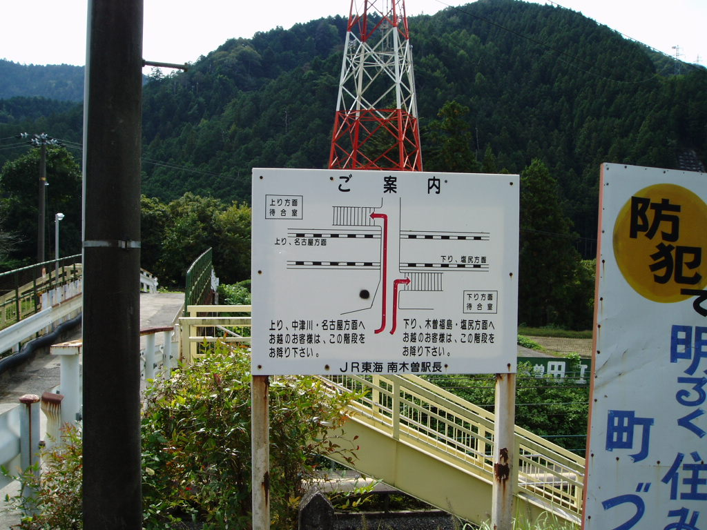 JR Central(Central Japan Railway Company)Chūō Main Line Tadachi station. （Marinesnow5 (talk)'s file） Date:2011-10-20. Author:Marinesnow5 (talk). location:Tadachi, Nagiso-Town, Kiso-County, Nagano-Prefecture, Japan.